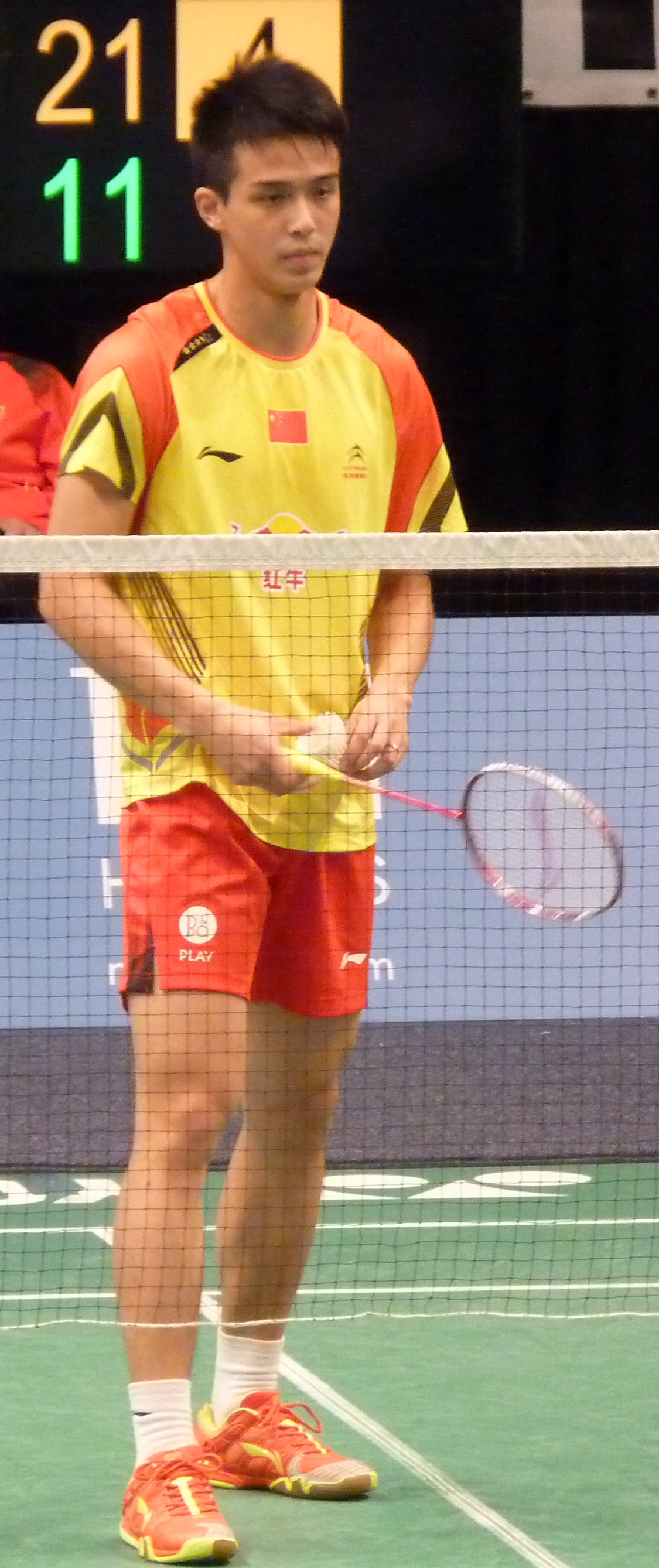 Kang Jun (CHINA)